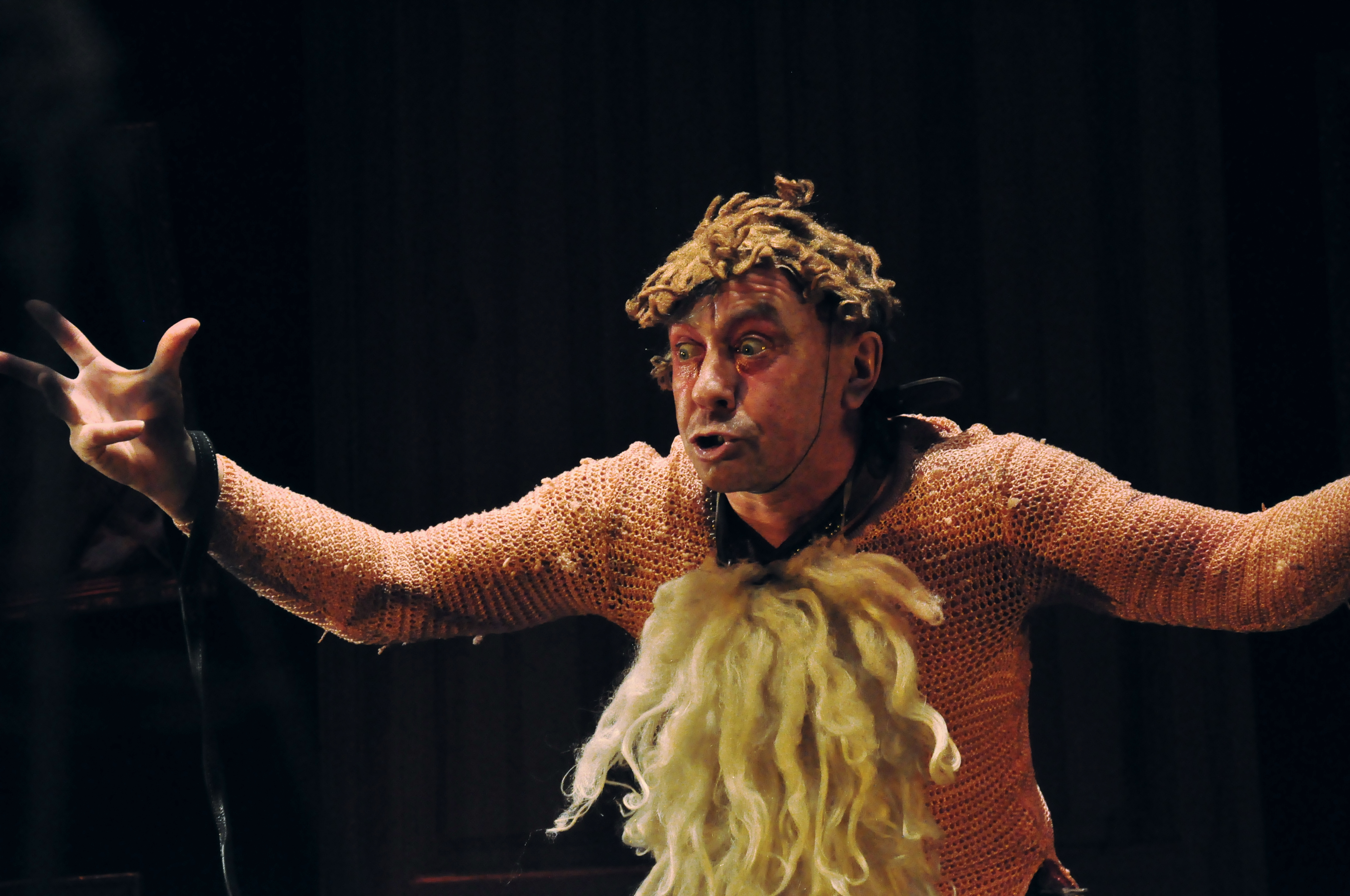 Taken at Moscow`s tour of Kolyada theatre in January 2014